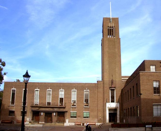 Hornsey Town Hall, Crouch End, Haringey Salimfadhley and photoshopped by hjuk to get rid of all that untidy reality!